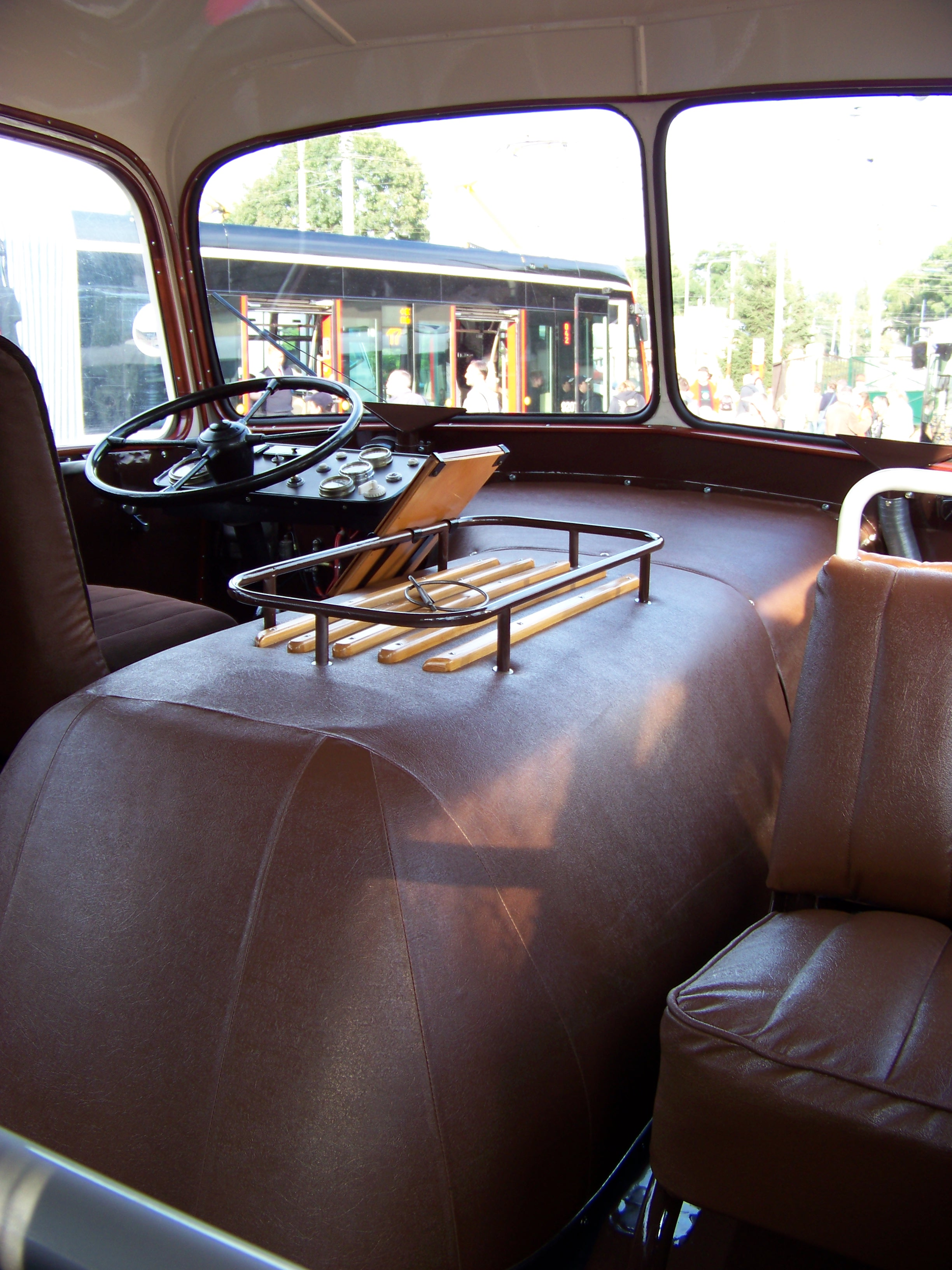 Prague-Střešovice, the Czech Republic. Open Doors Day of Urban Transport Museum. A bus Škoda 706 RO, a cockpit. - Google Maps - Google Earth